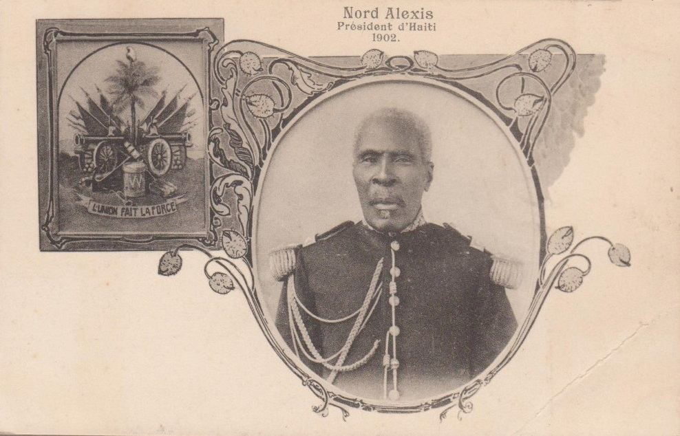 Postcard issued to mark the investiture of General Pierre Nord Alexis as president of Haiti on 21 December 1902.